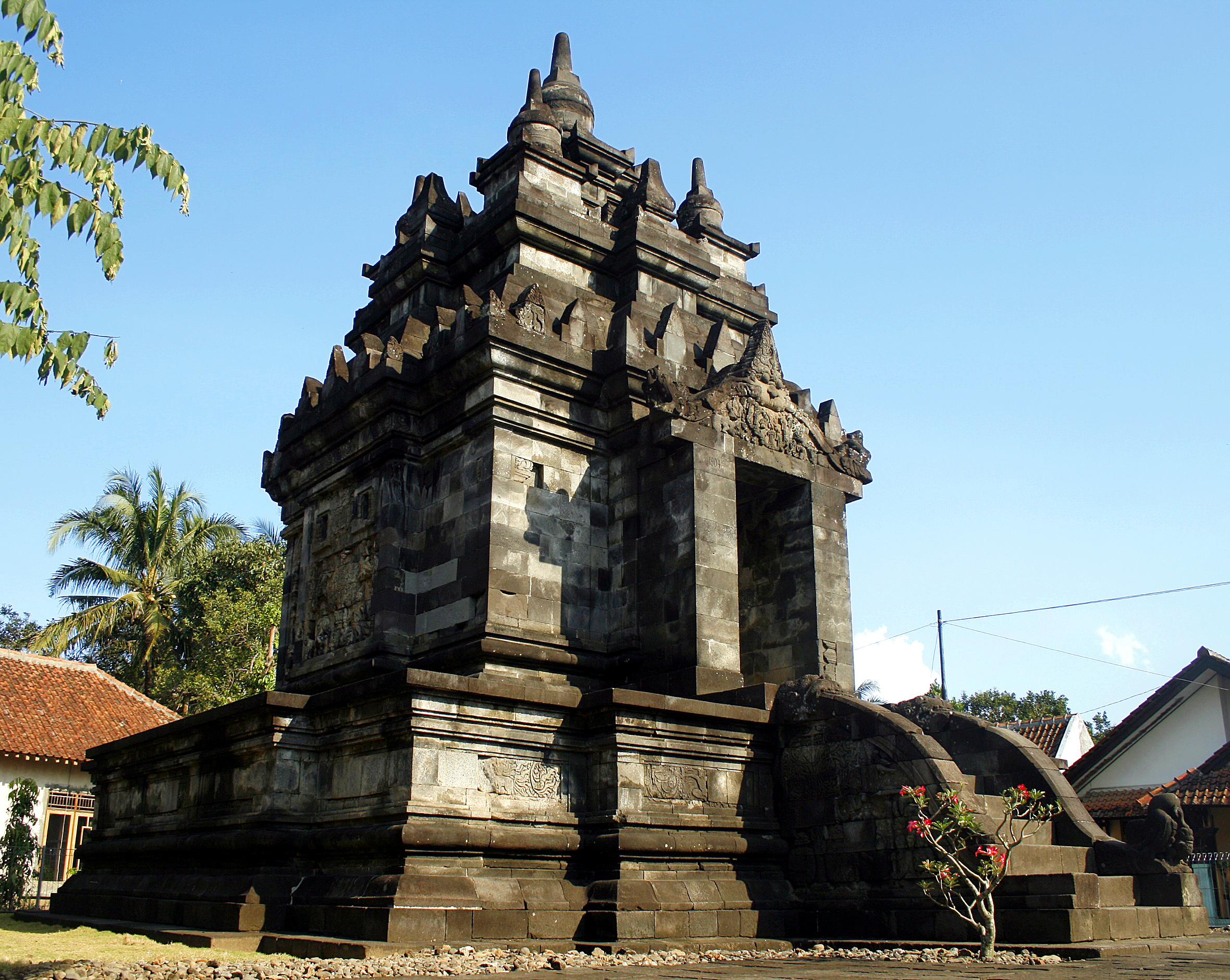 Pawon temple situated between Mendut and Borobudur temple, Central Java, Indonesia.